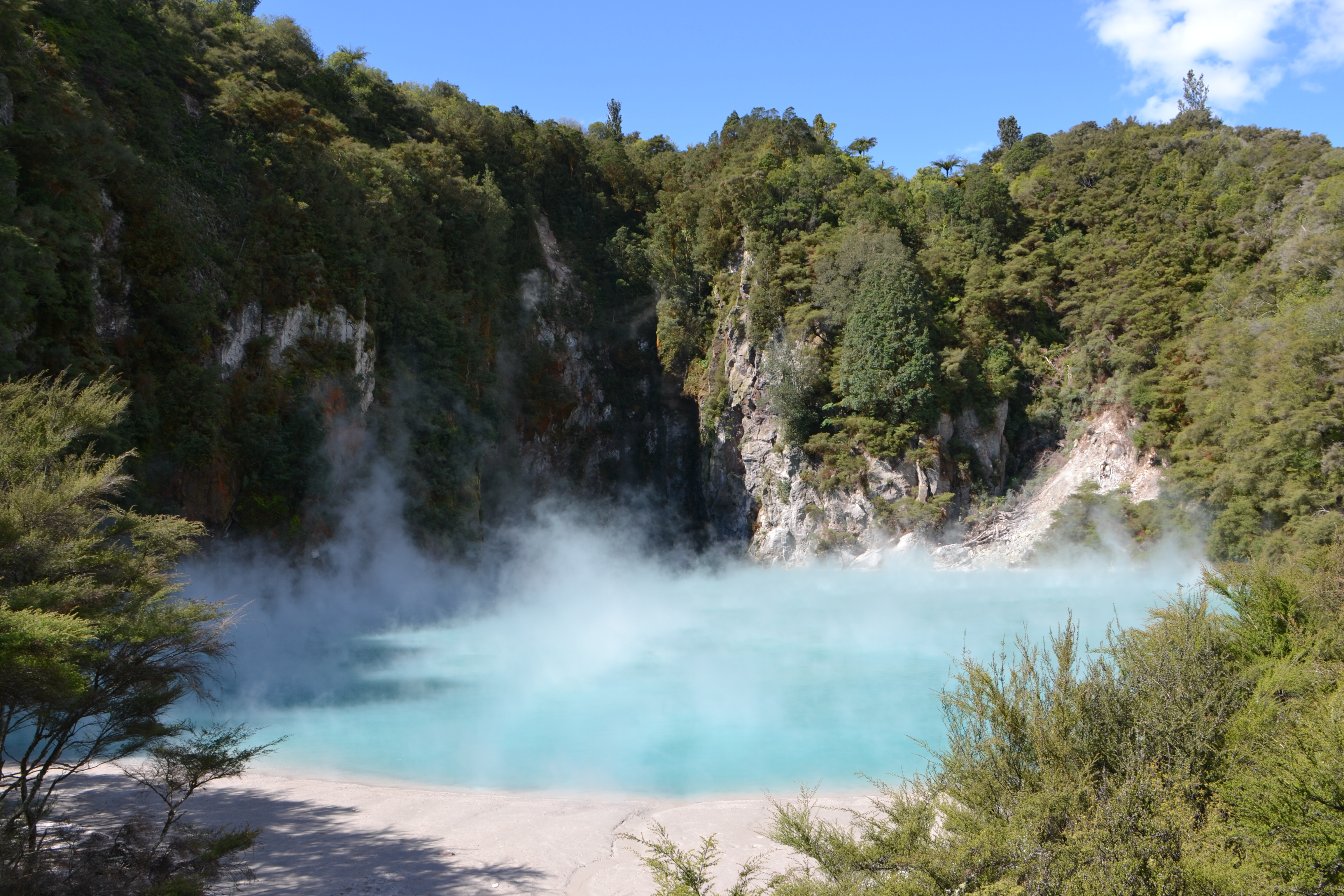 Inferno Crater Lake in the Waimangu Valley, Rotorua, New Zealand.